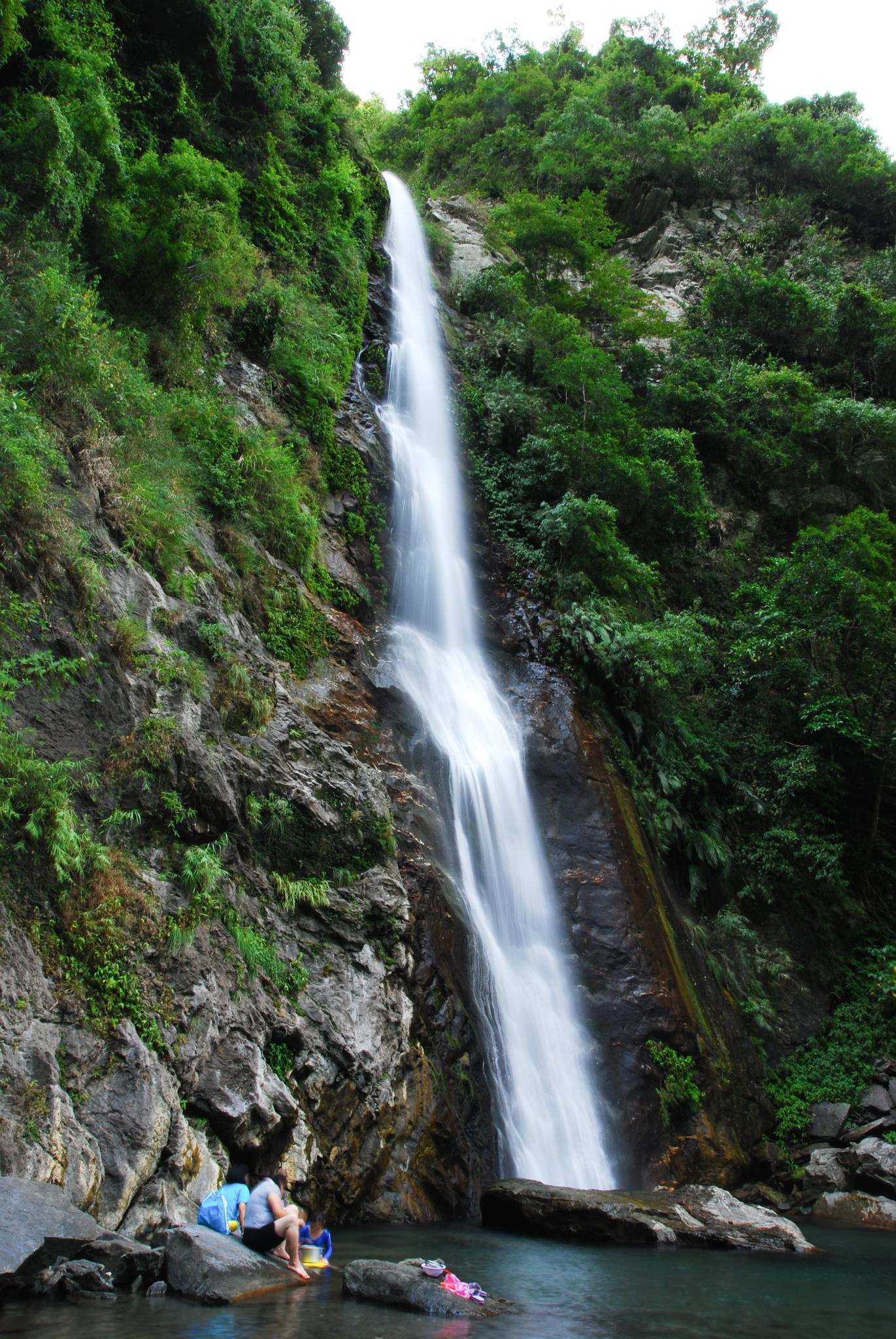 Nan'an Waterfall close-up.